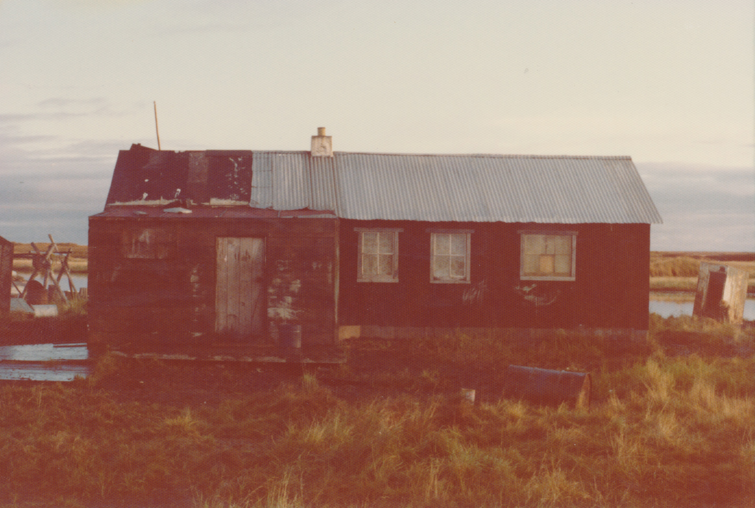 Camping at the Hilton in Newtok. This building was the Head Start school, the church, and our home for 9 months from August '74 to May '75.